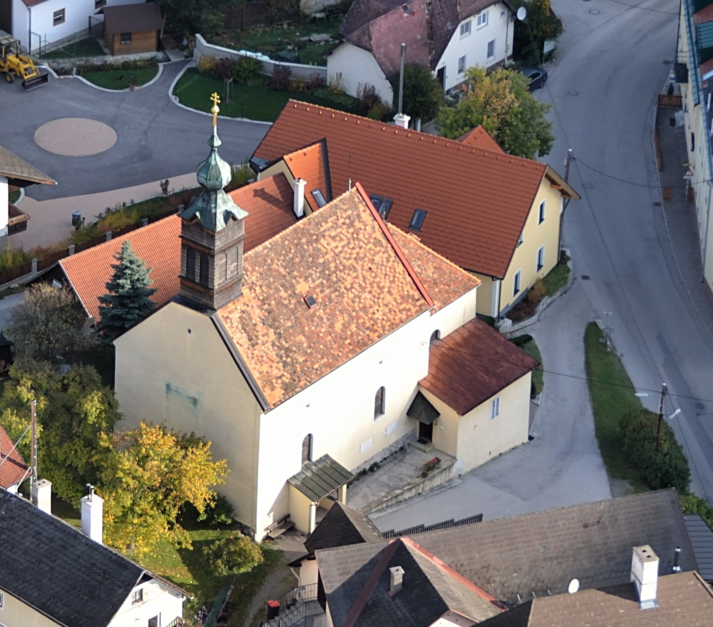 Parish church Saints Philipp and James in Raisenmarkt, Alland